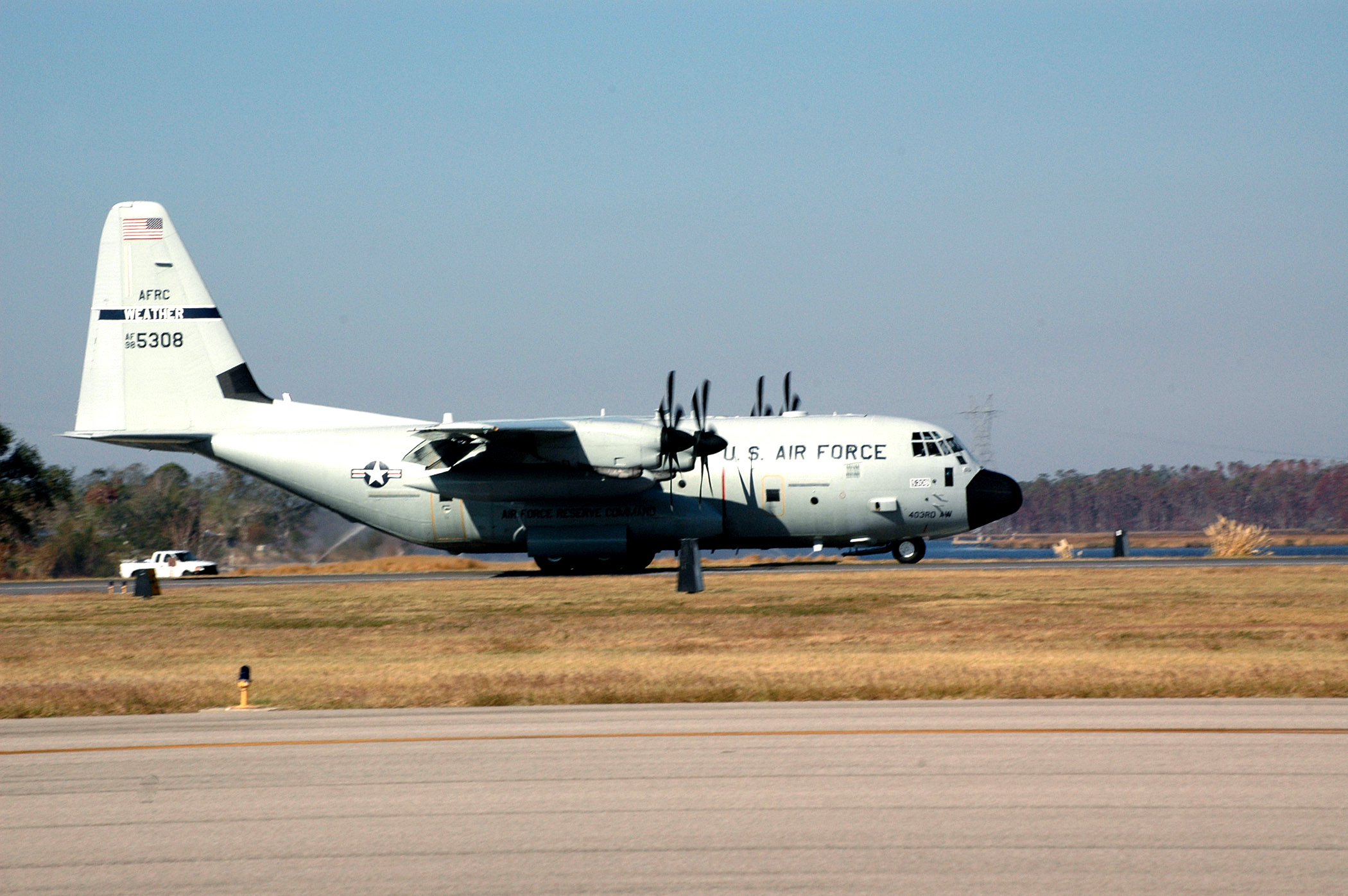 The final C-130J Hercules from the 403rd Wing in Keesler AFB touched down after being forward deployed to Dobbins Air Reserve Base, Ga.